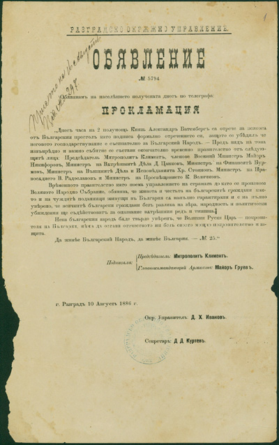 Proclamation of the abdication of Alexander Battenberg, issued in Razgrad on 10.08.1886